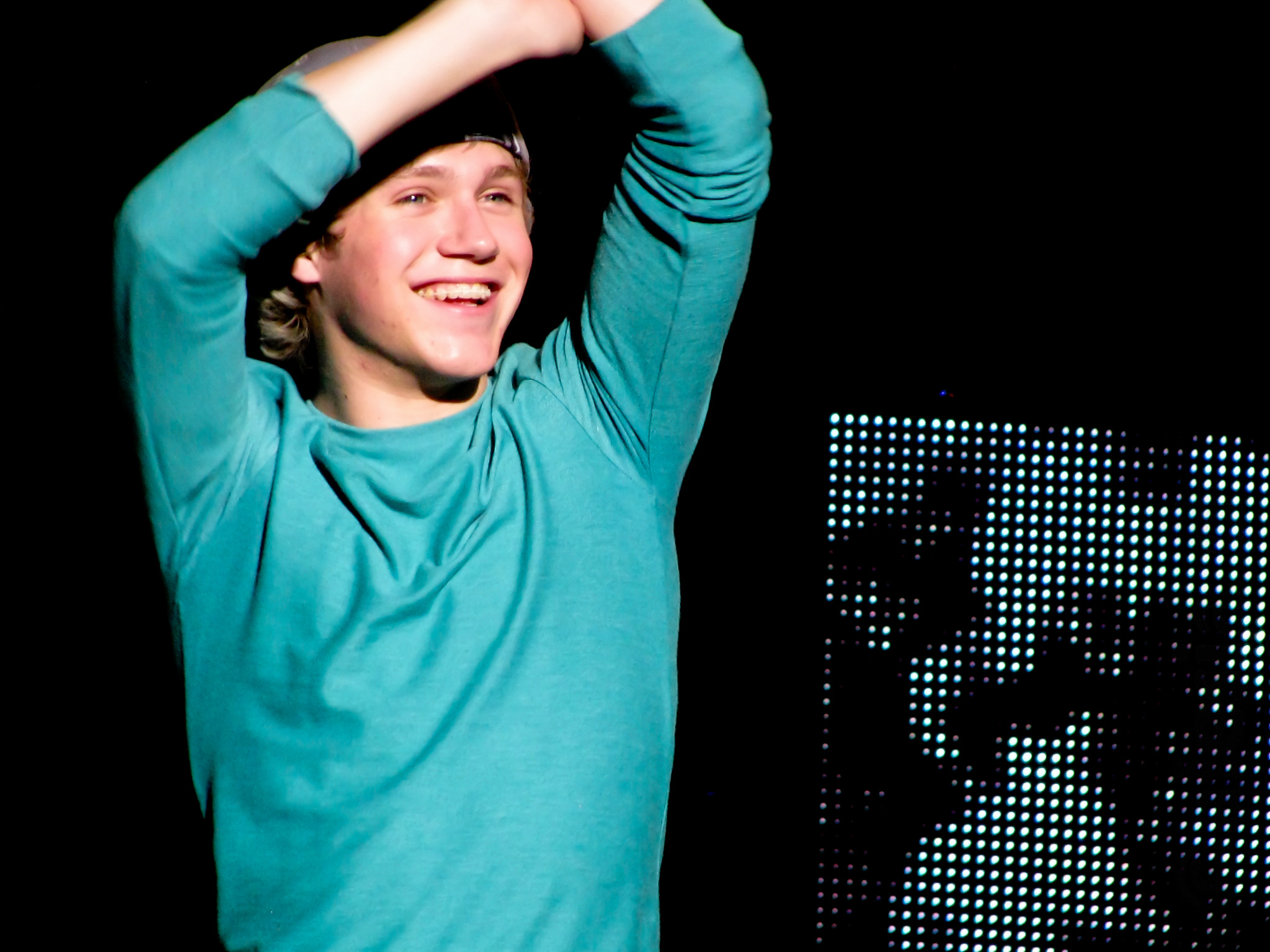 One Direction, Molson Canadian Amphitheatre, Toronto, Ontario, May 29, 2012